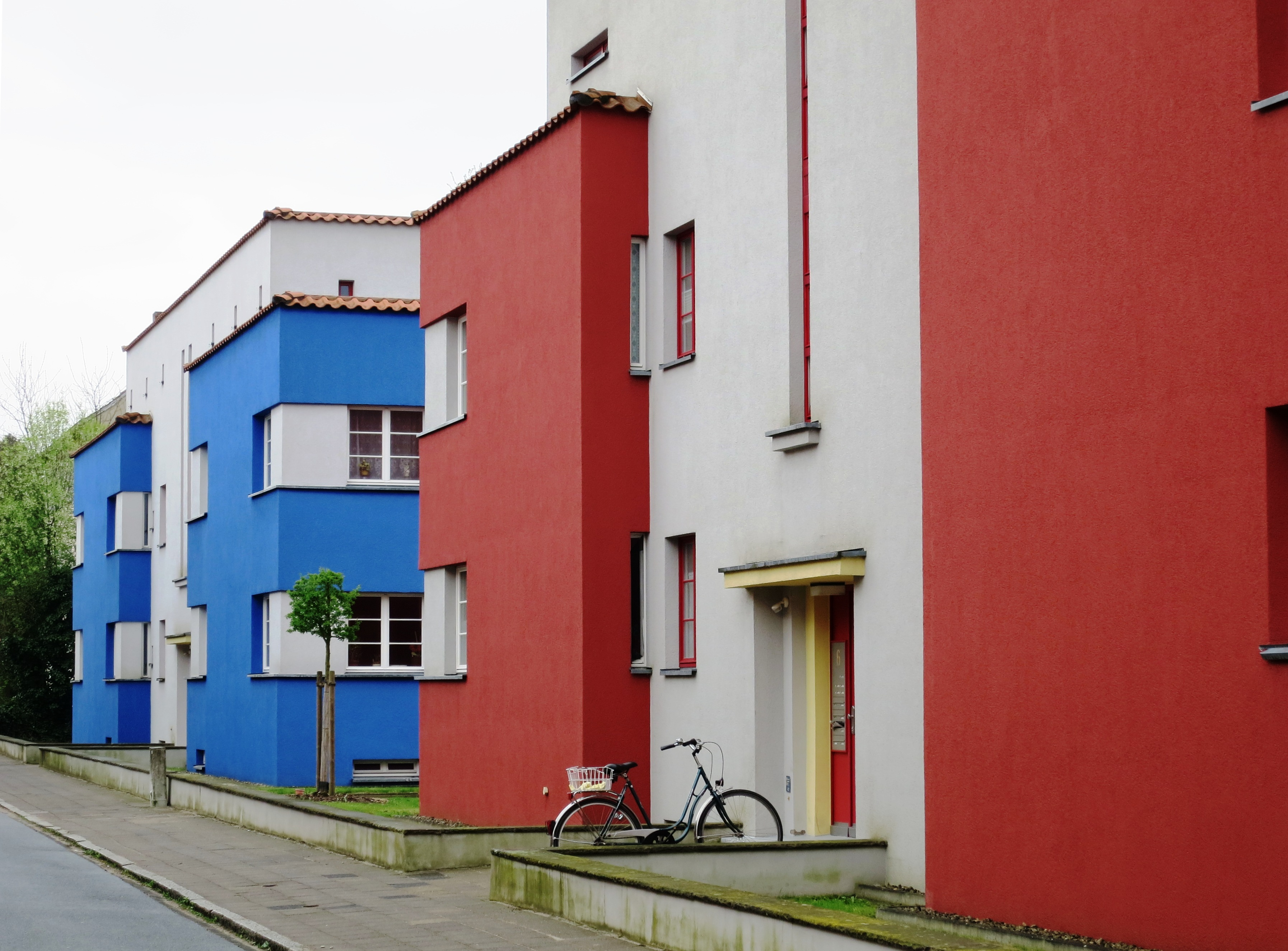 Siedlung Italienischer Garten, Celle